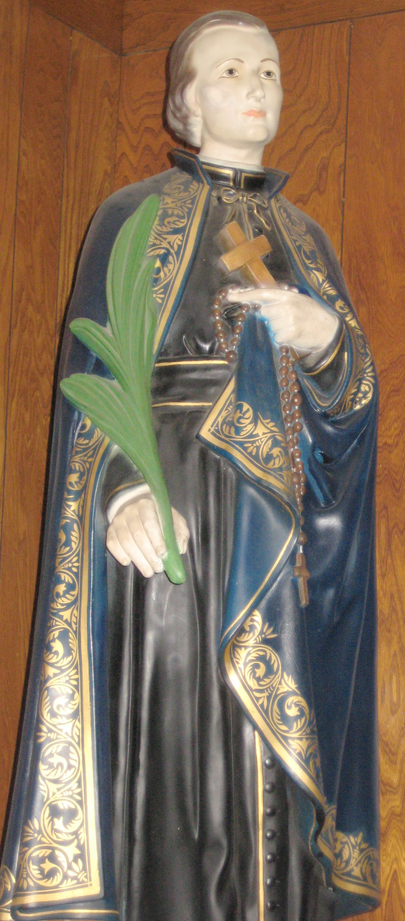 Statue of St. Peter Chanel at the The Lourdes Center on Beacon Street in Kenmore Square (Boston, Massachusetts). This chapel operated by the Marist Fathers was established in 1950 by Cardinal Richard J. Cushing and Bishop Pierre-Marie Theas to distribute Lourdes water in the United States. January 2009 photo by John Stephen Dwyer.